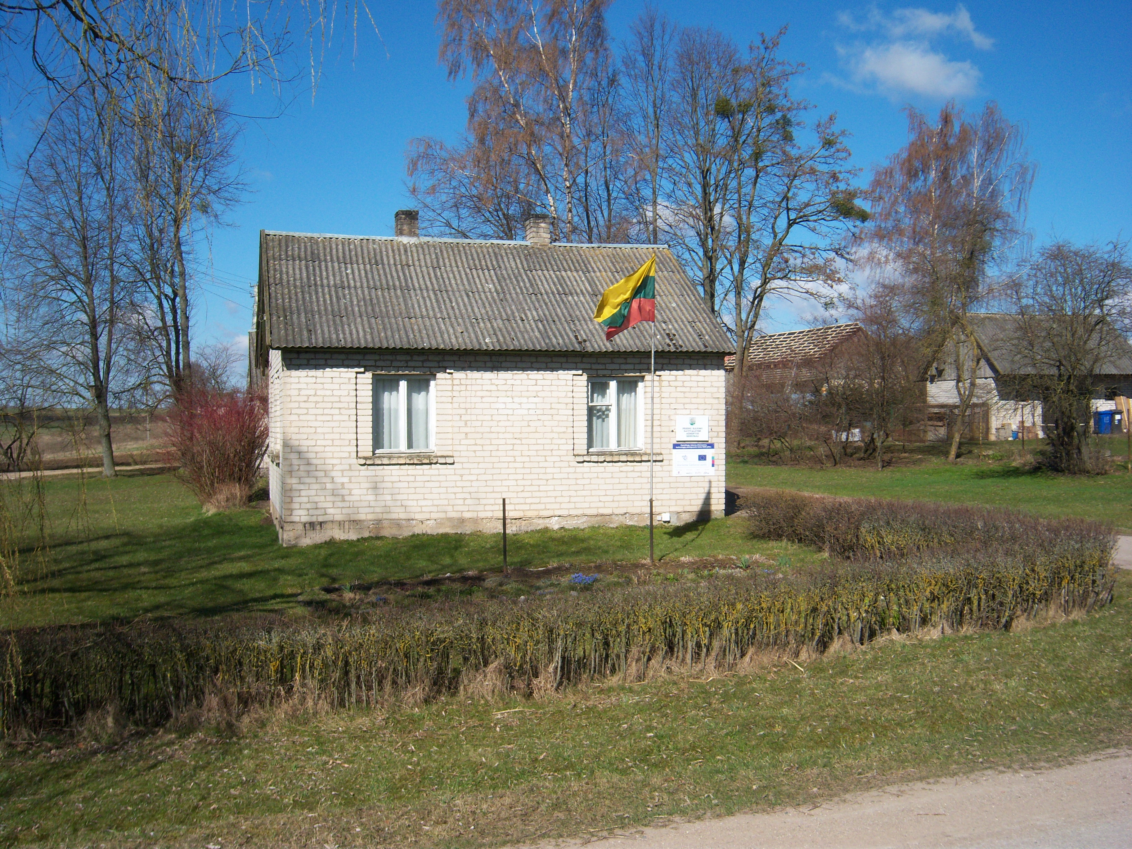 Ašminta Eldership, Prienai district, Lithuania